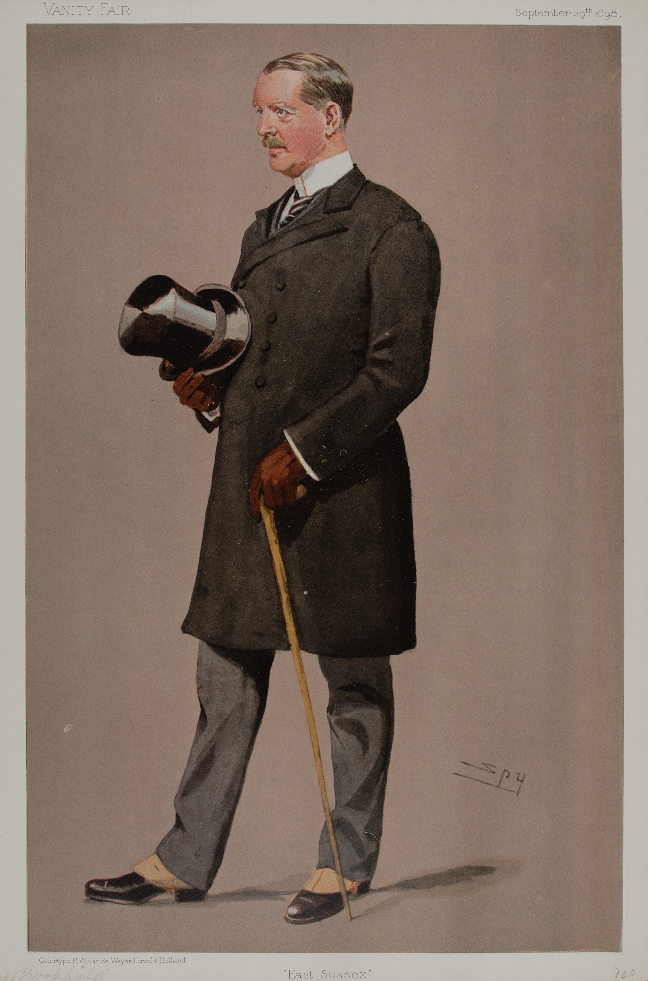 Statesmen No. 700: Caricature of Colonel Arthur Montagu Brookfield MP. Caption read "East Sussex".